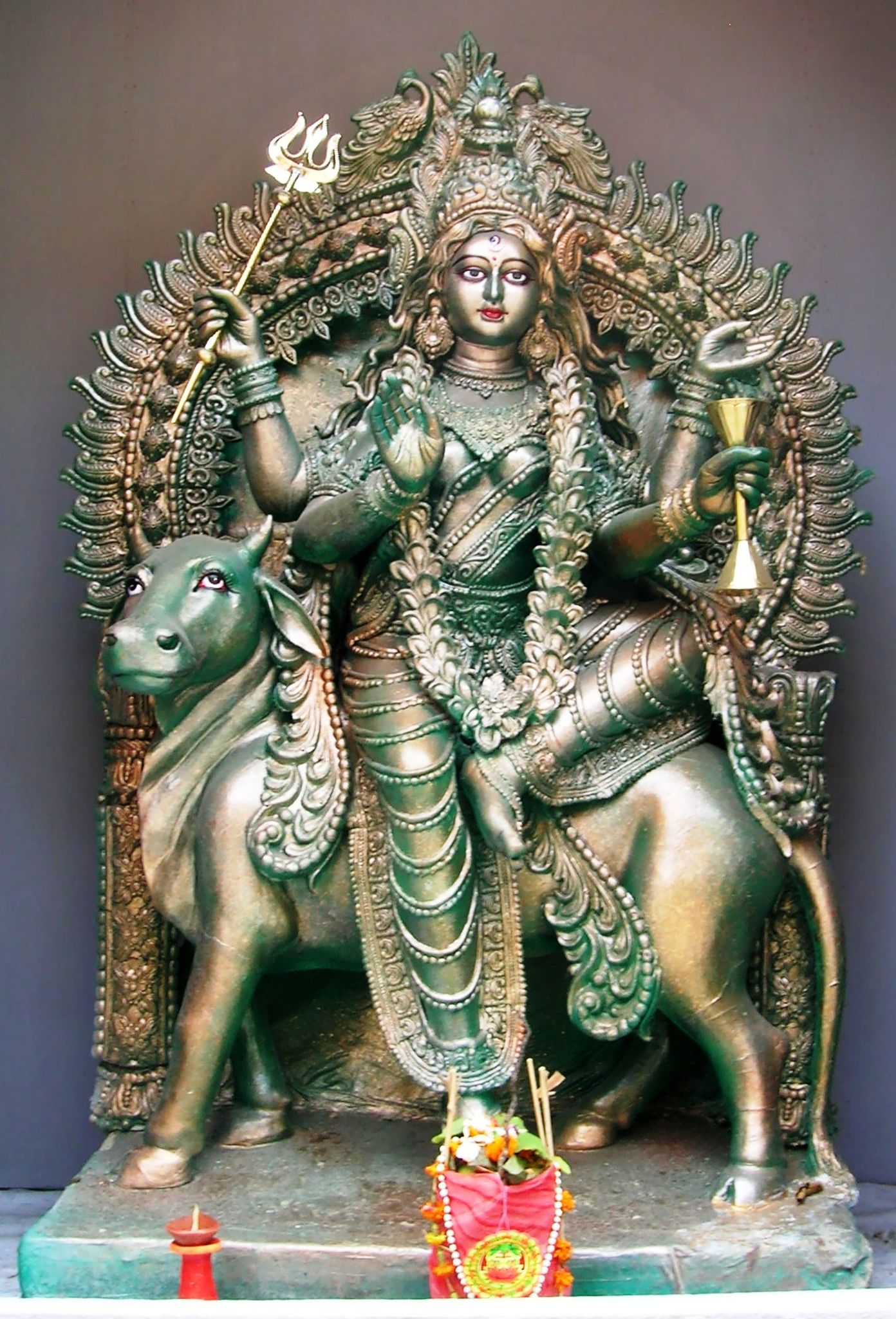 Devi Mahagauri, Sanghasri, Kalighat, Kolkata, 2010.